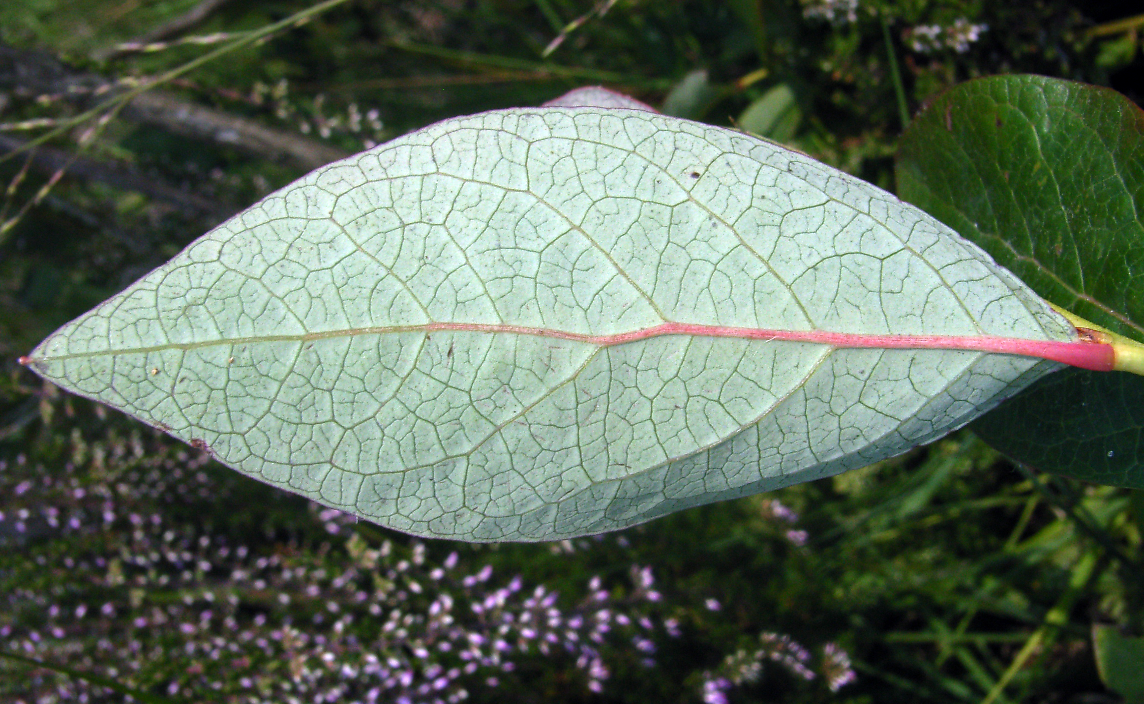 Vaccinium cf. corymbosum in a raised bog in Lower Saxony (Germany), leaf underside